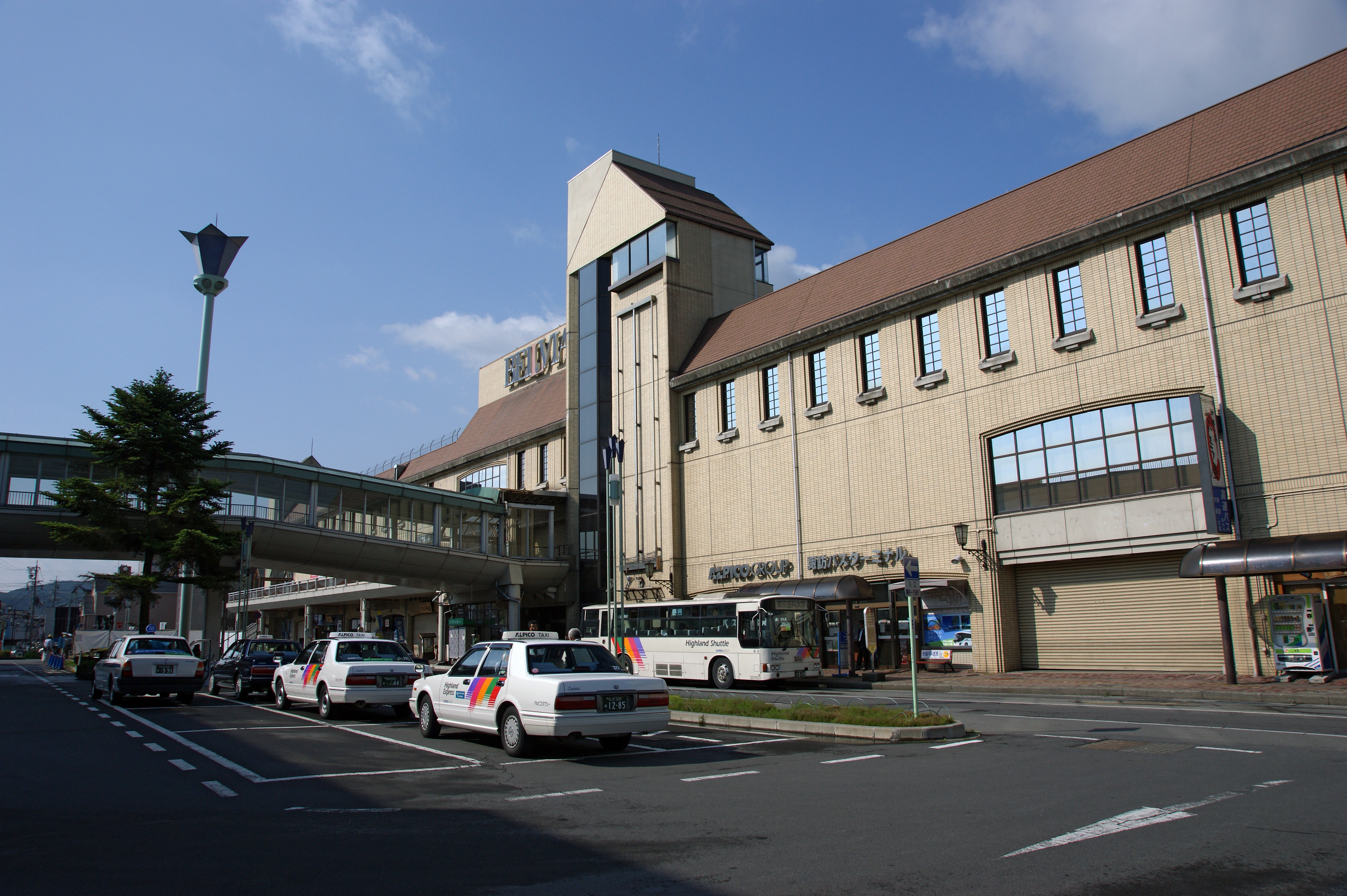 Chino Station, Chino, Nagano prefecture, Japan